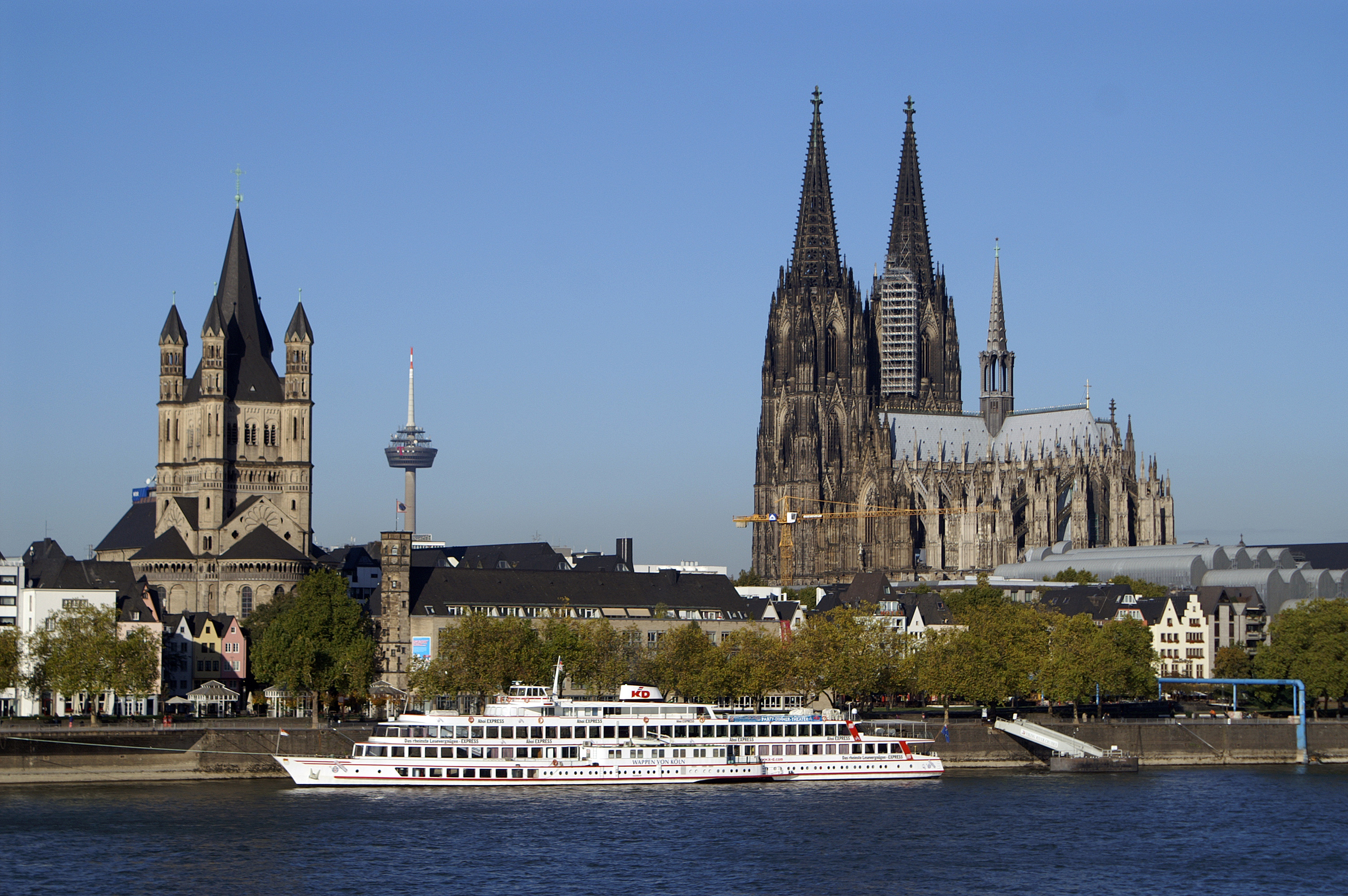 Cologne Cathedral (right-hand) and Great St. Martin Church (left-hand) and the Wappen von Köln streamer (Kölner-Düsseldorfer) in Cologne.